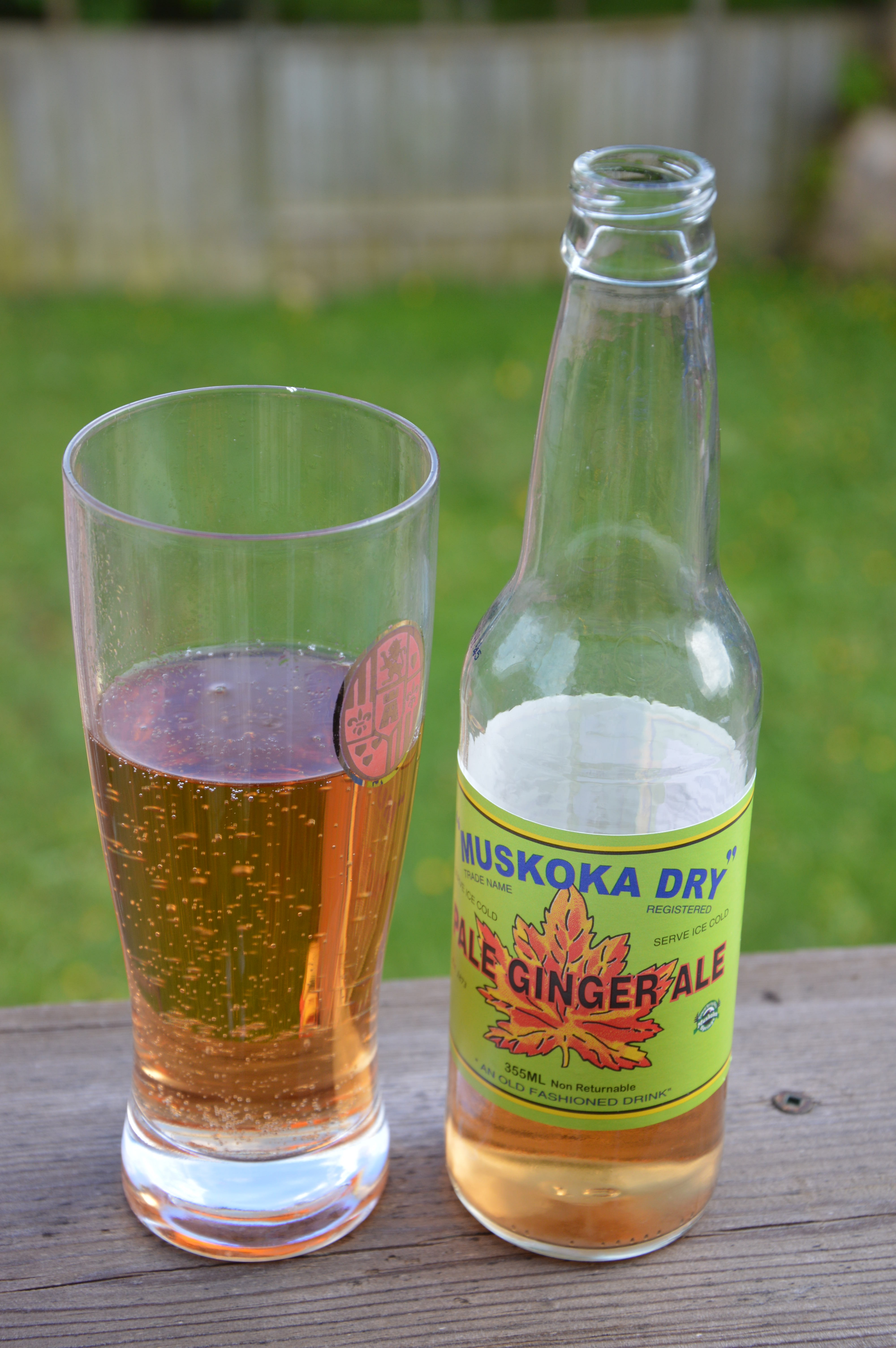 A glass of Muskoka Dry Pale Ginger Ale, made in Gravenhurst, Ontario, Canada by Muskoka Springs Natural Spring Water.